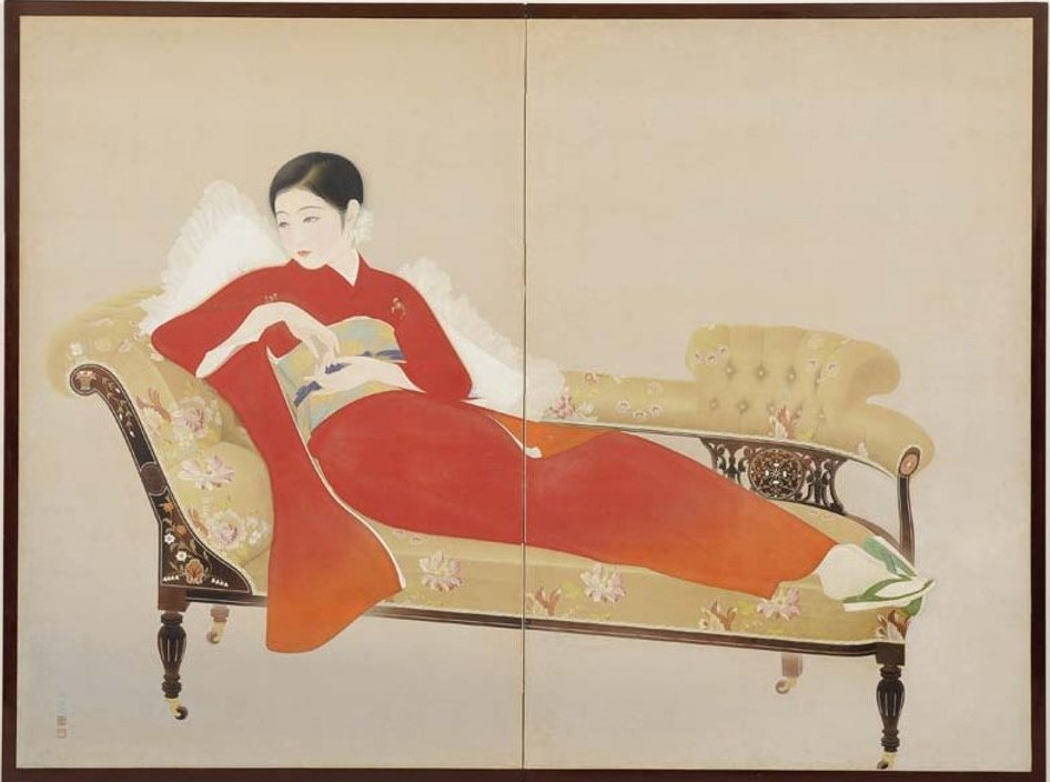 Woman (Fujo) by Nakamura Daizaburö (1898-1947). Japan, Shôwa period (1926-1989), 1930. Two panel screen; ink and colors on silk. Purchase, 1994. Honolulu Museum of Art